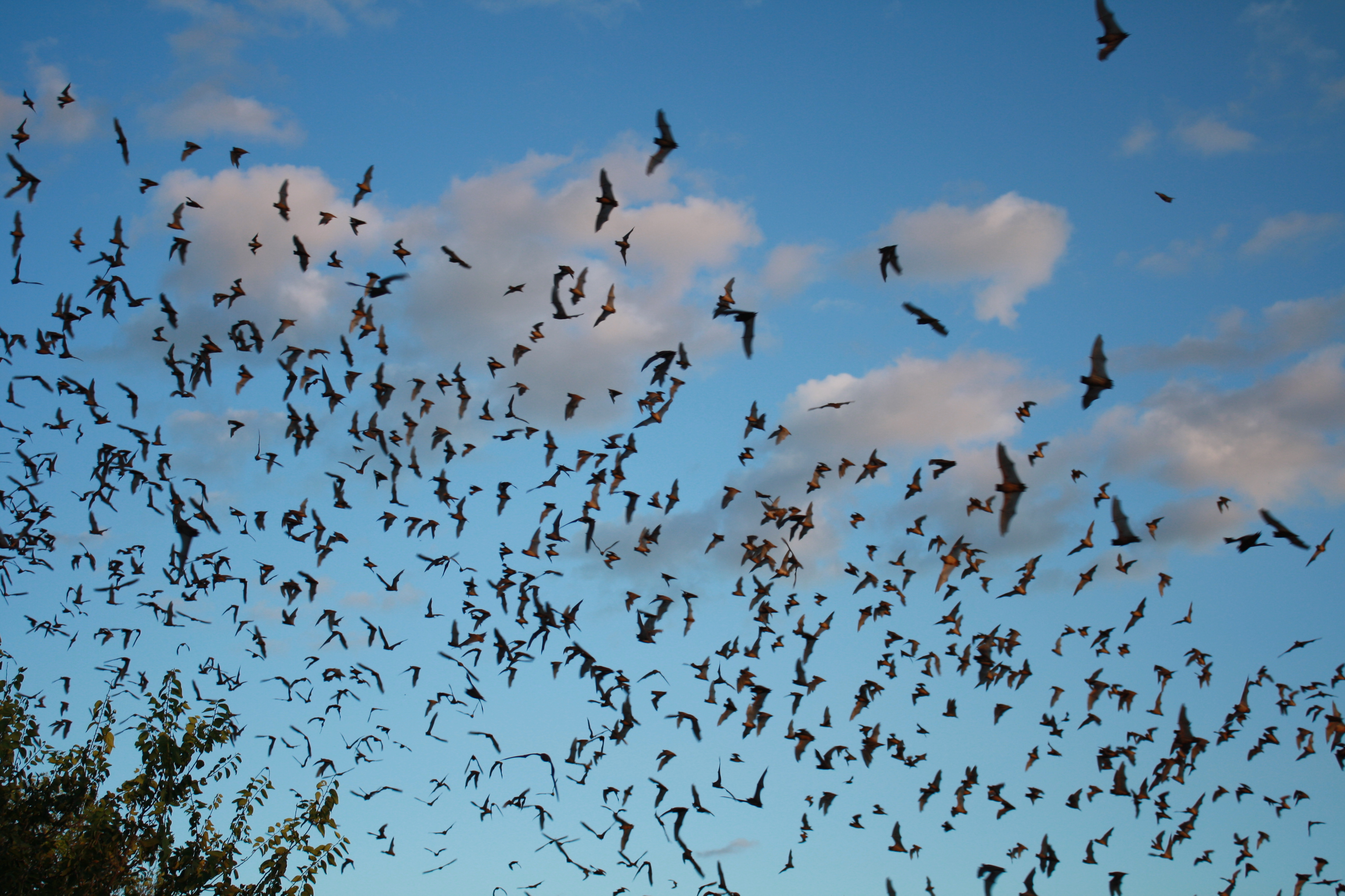 Mexican free-tailed bats exiting Bracken Bat Cave photo credit: USFWS/Ann Froschauer